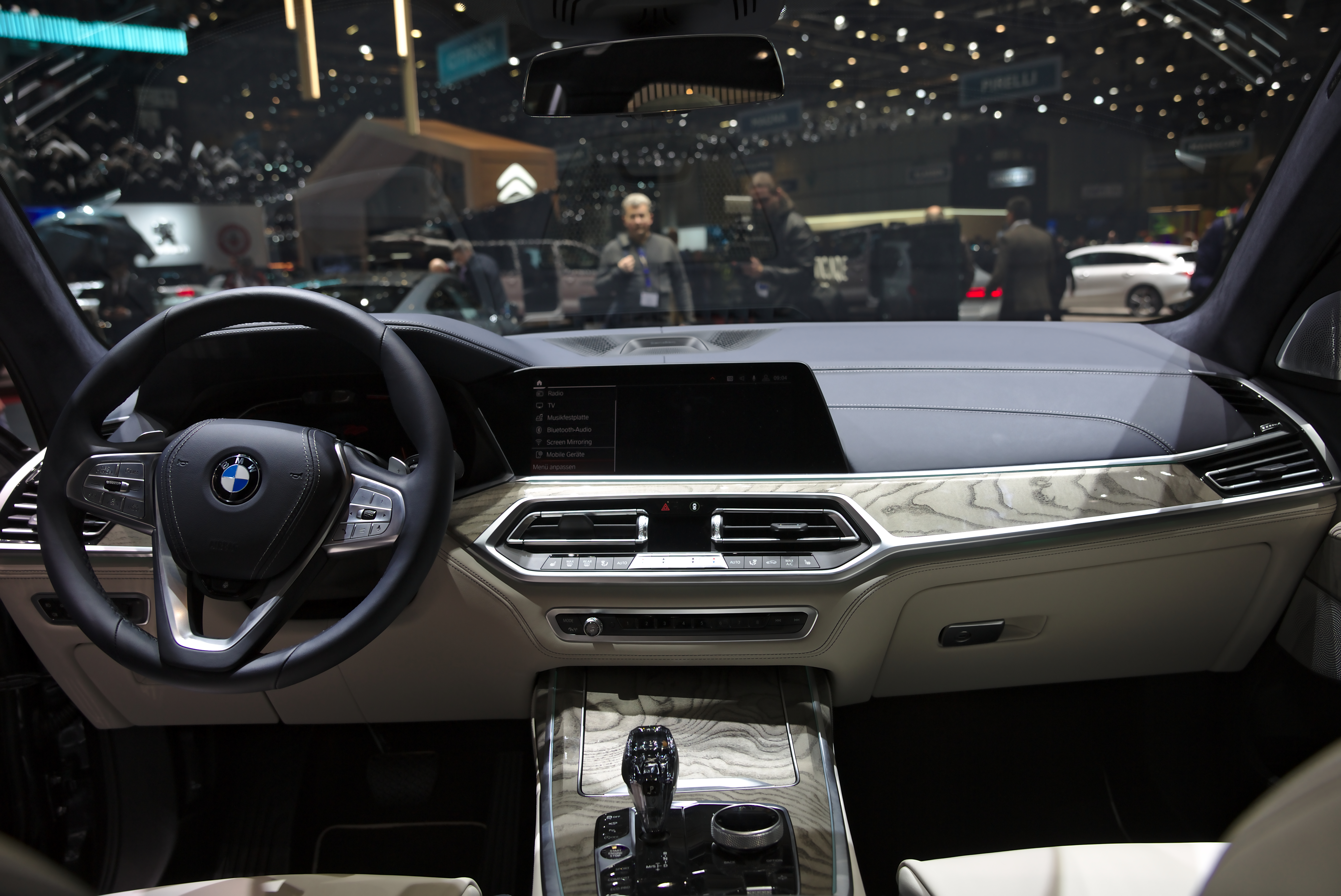 BMW X7 at Geneva Motor Show 2019